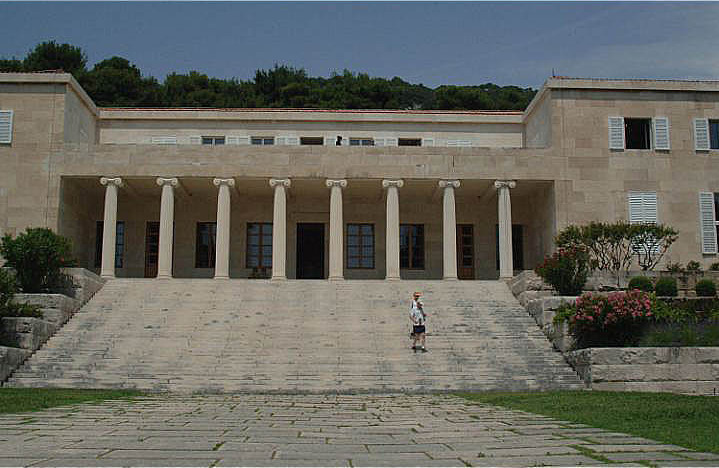 MESTROVIC GALLERY – WAS THE HOME OF THE SCULPTOR IN THE 1930’S; LOCATED ON THE OUTSKIRTS OF SPLIT